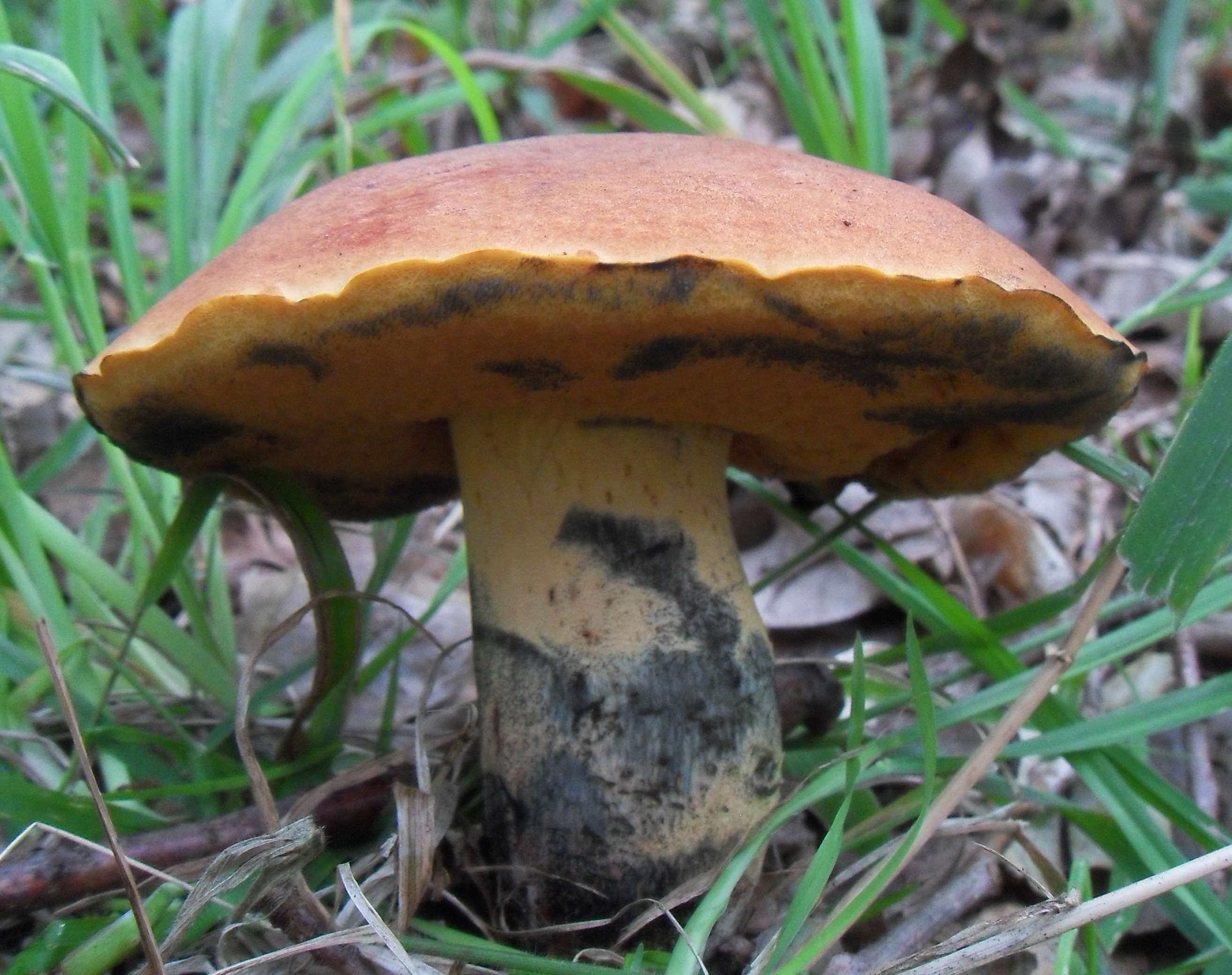 Boletus queletii, Czech republic, old oak forest